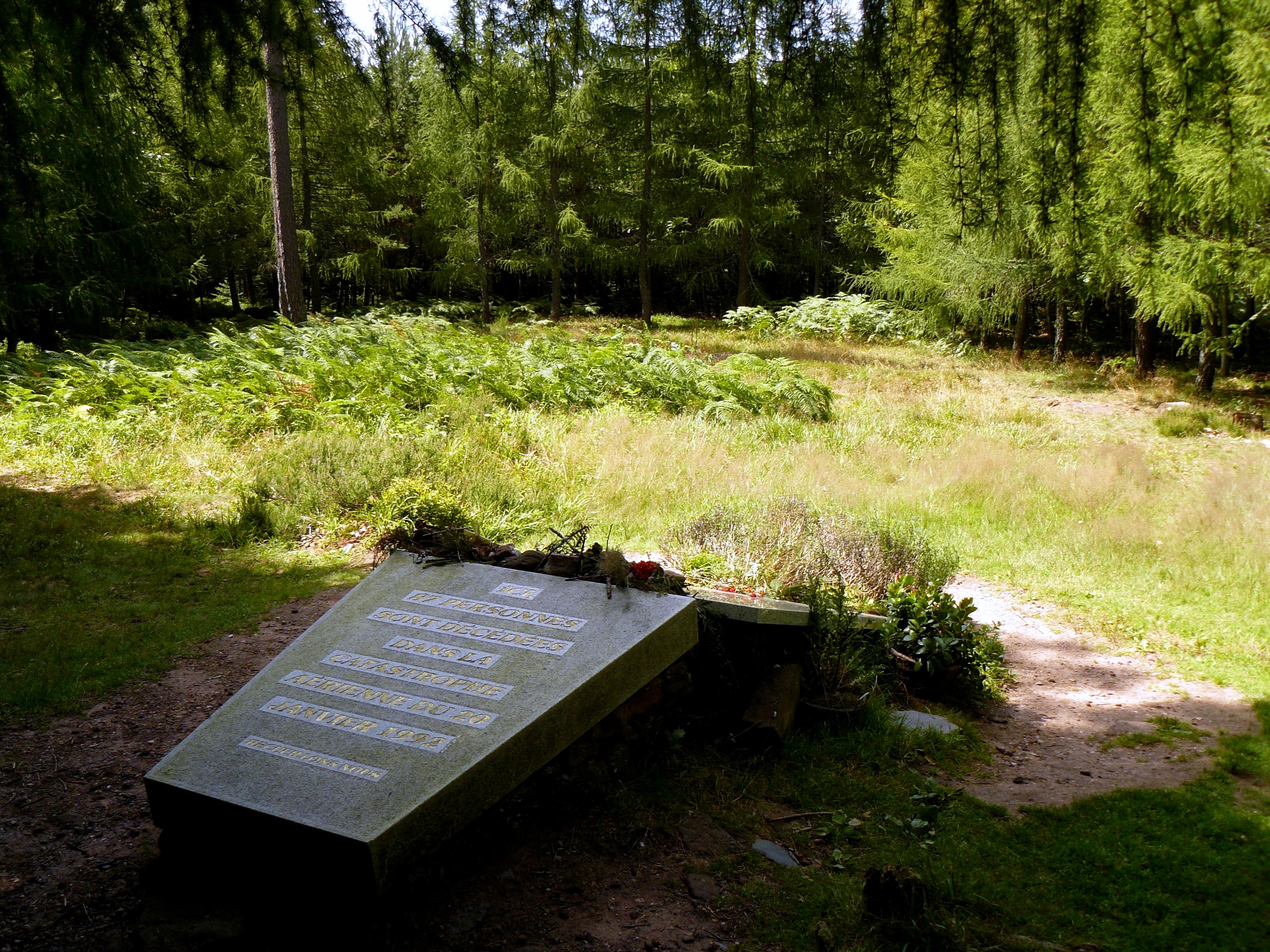 Site of Mont Sainte-Odile air crash (Barr, Haut-Rhin, France) on January 20th, 1992 (87 deceased). Flight Air Inter 148.